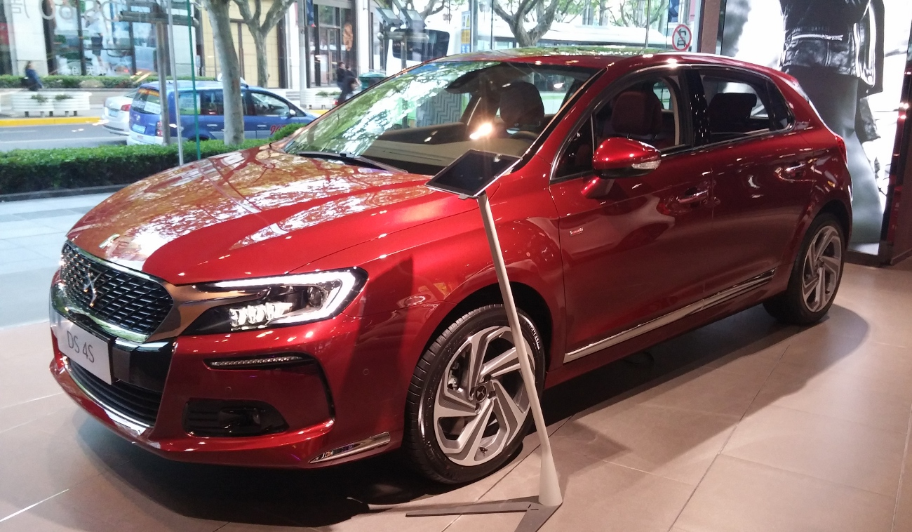 DS 4S photographed in Shanghai, China.